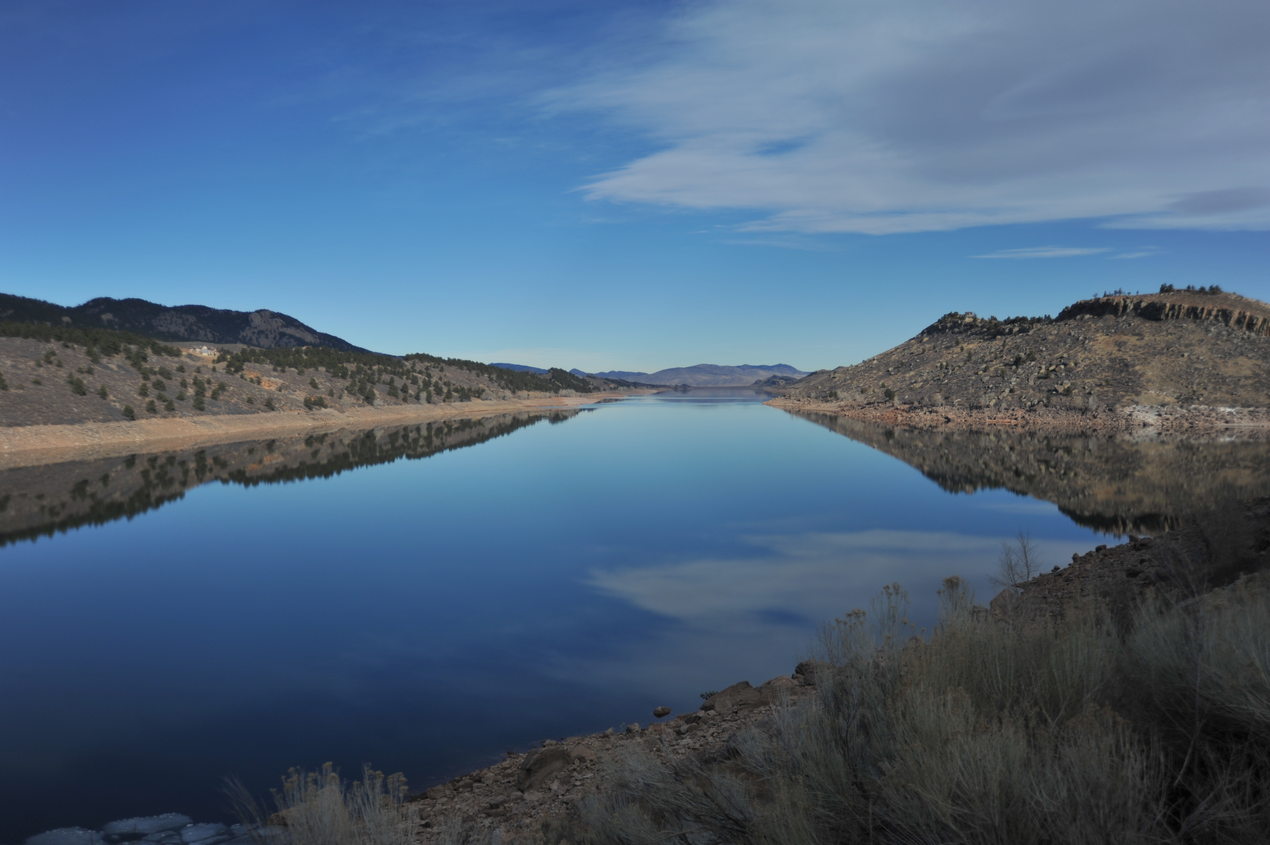 Looking North Across Horsetooth Res